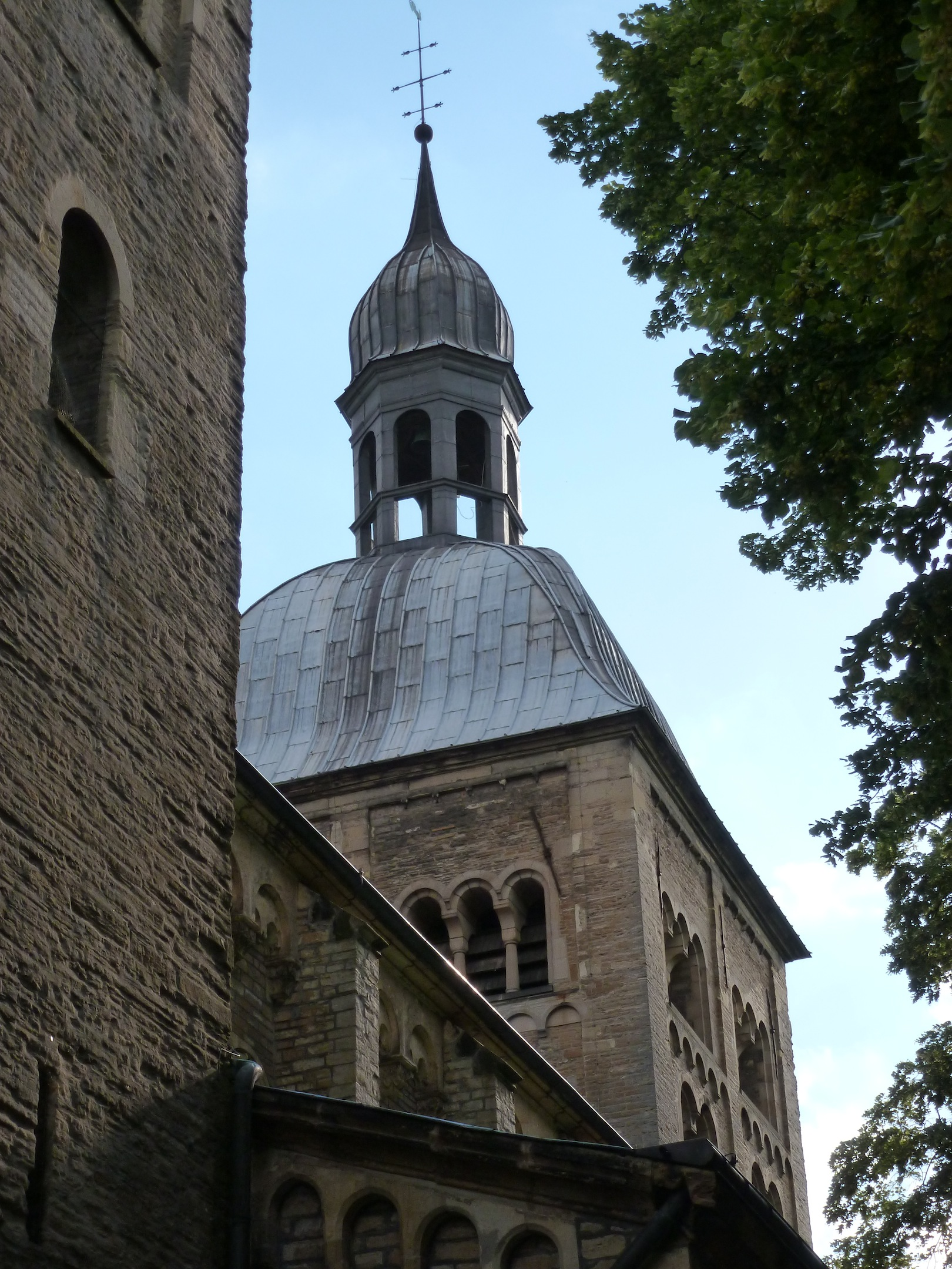 Westturm